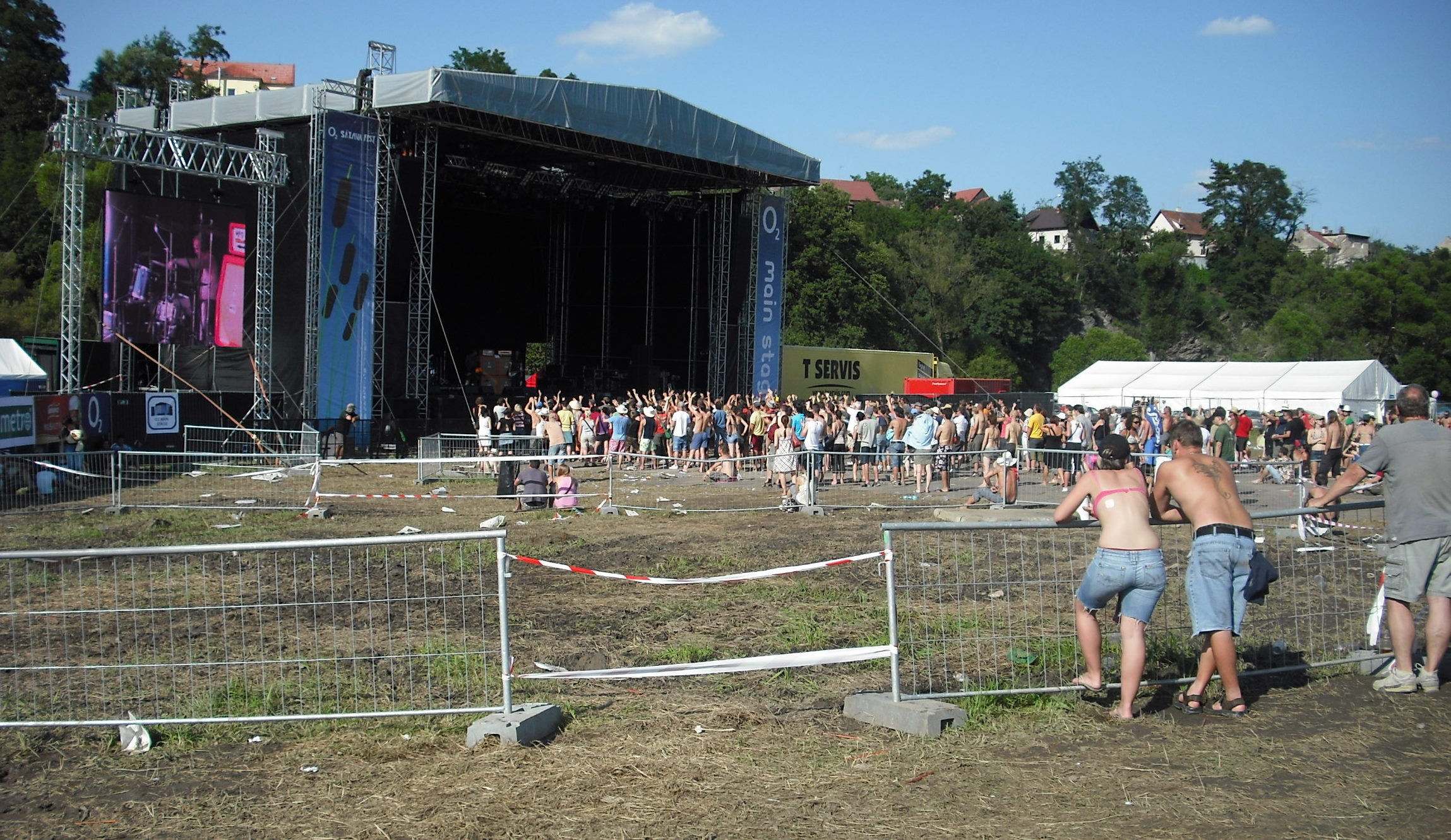 SazavaFest 2009 in Czech Republic, main stage